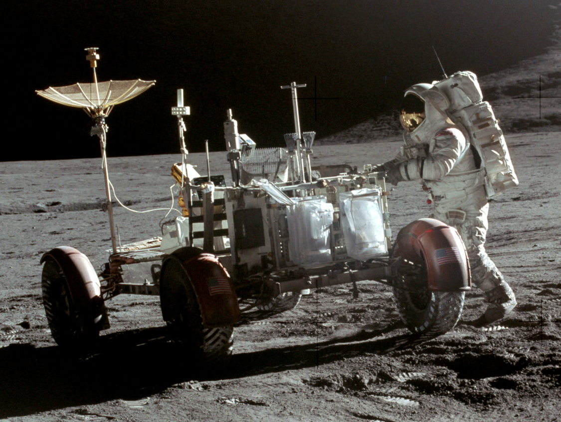 Image from Apollo 15, taken by Commander David Scott at the end of EVA-1. Lunar Module Pilot Jim Irwin is seen with the Lunar Roving Vehicle, with Mount Hadley in the background. Seen on the back of the Rover are two SCBs mounted on the gate, along with the rake, both pairs of tongs, the extension handle with scoop probably attached, and the penetrometer. Note that the TV camera is pointed down, in the stowed position.